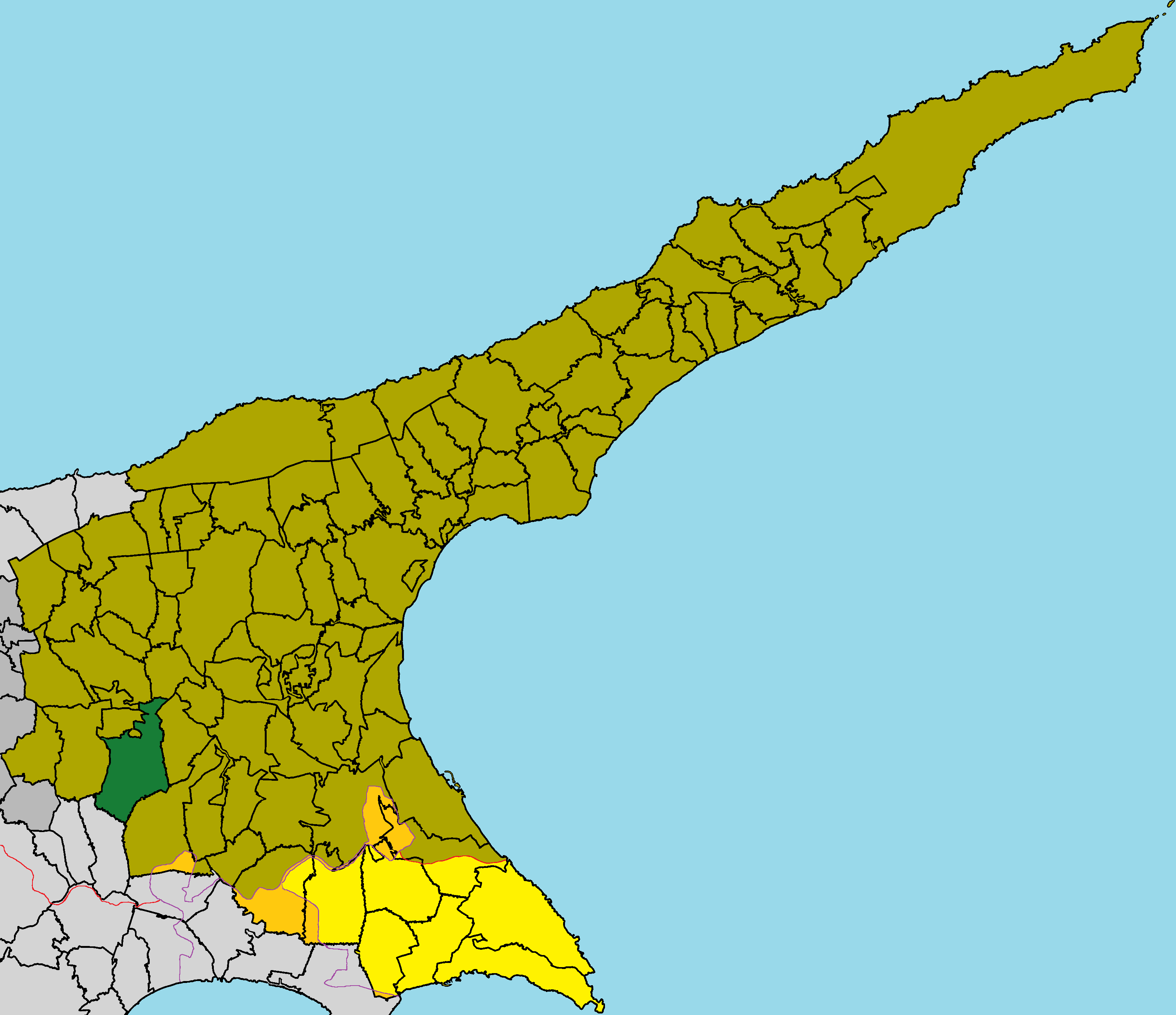 Vatili in Famagusta District (de jure).